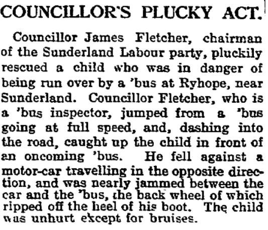 Councillor's Plucky Act - Manchester Guardian - 1930-03-21 - page10